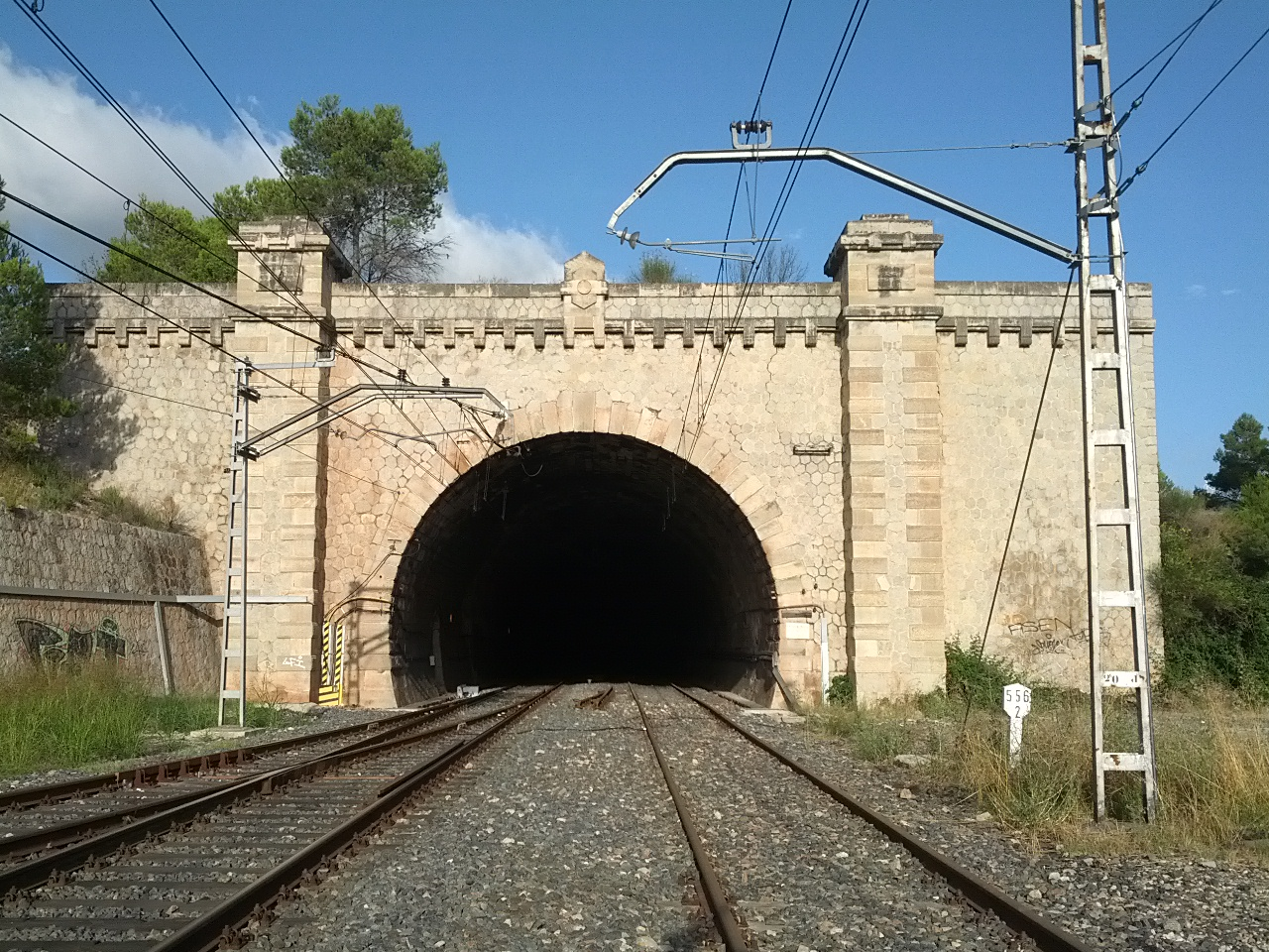 Tunnel of Argentera. View from the side of the station of Pradell de la Teixeta